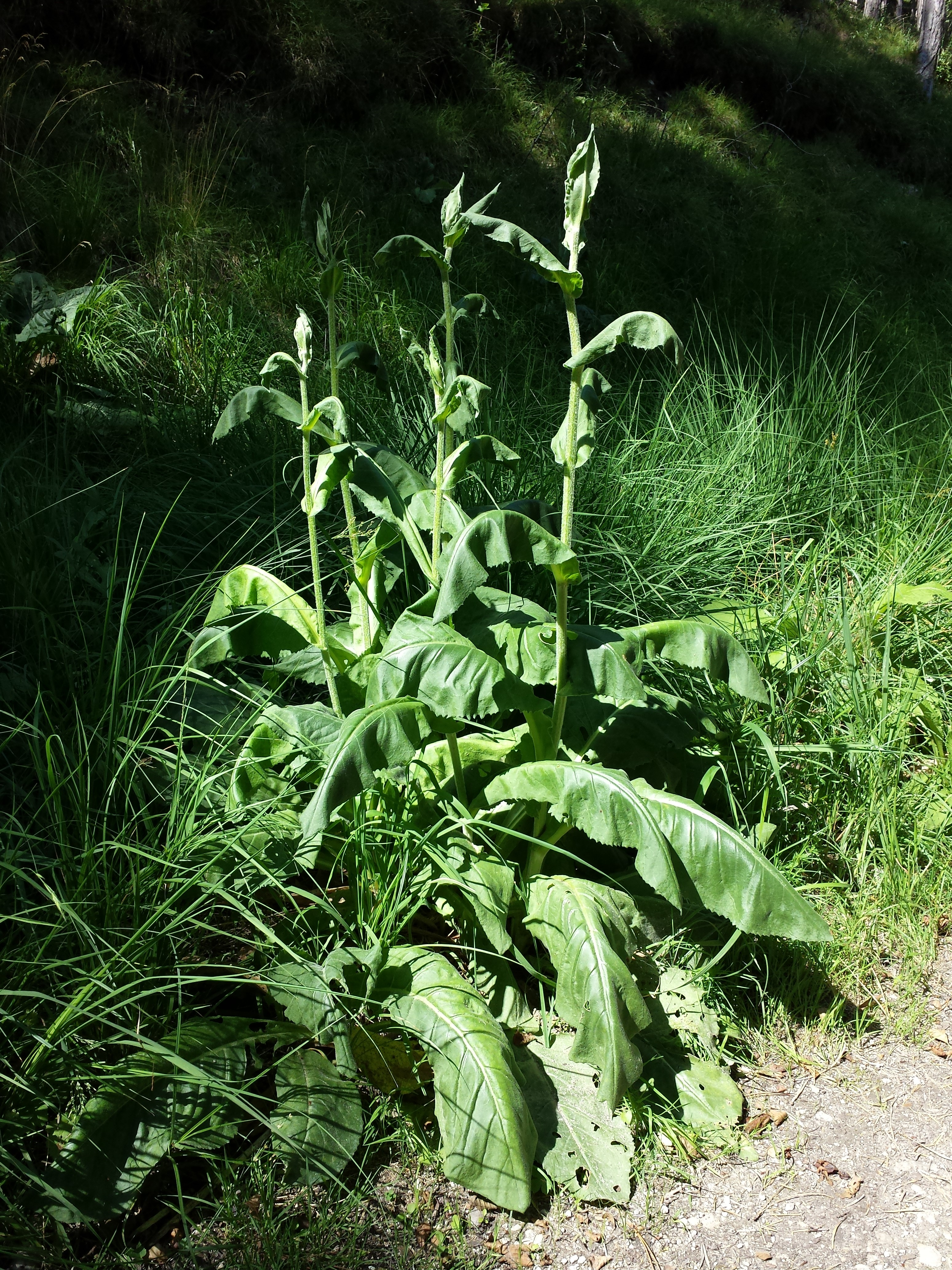 Habitus Taxonym: Senecio umbrosus ss Fischer et al. EfÖLS 2008 ISBN 978-3-85474-187-9 Location: Grillenberger Tal, district Baden, Lower Austria - ca. 400 m a.s.l. Habitat: wayside within a wood